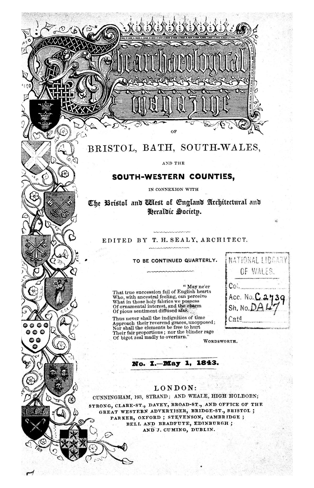 A quarterly periodical that published articles on ecclesiological and archeological studies of the southwest of England and of south Wales. One of the periodical's main aims was to alert the general public to the existence of the Bristol and South West of England Architectural and Heraldic Society and to publicise it aims. The periodical was edited by Thomas Henry Sealy (1811-1848).